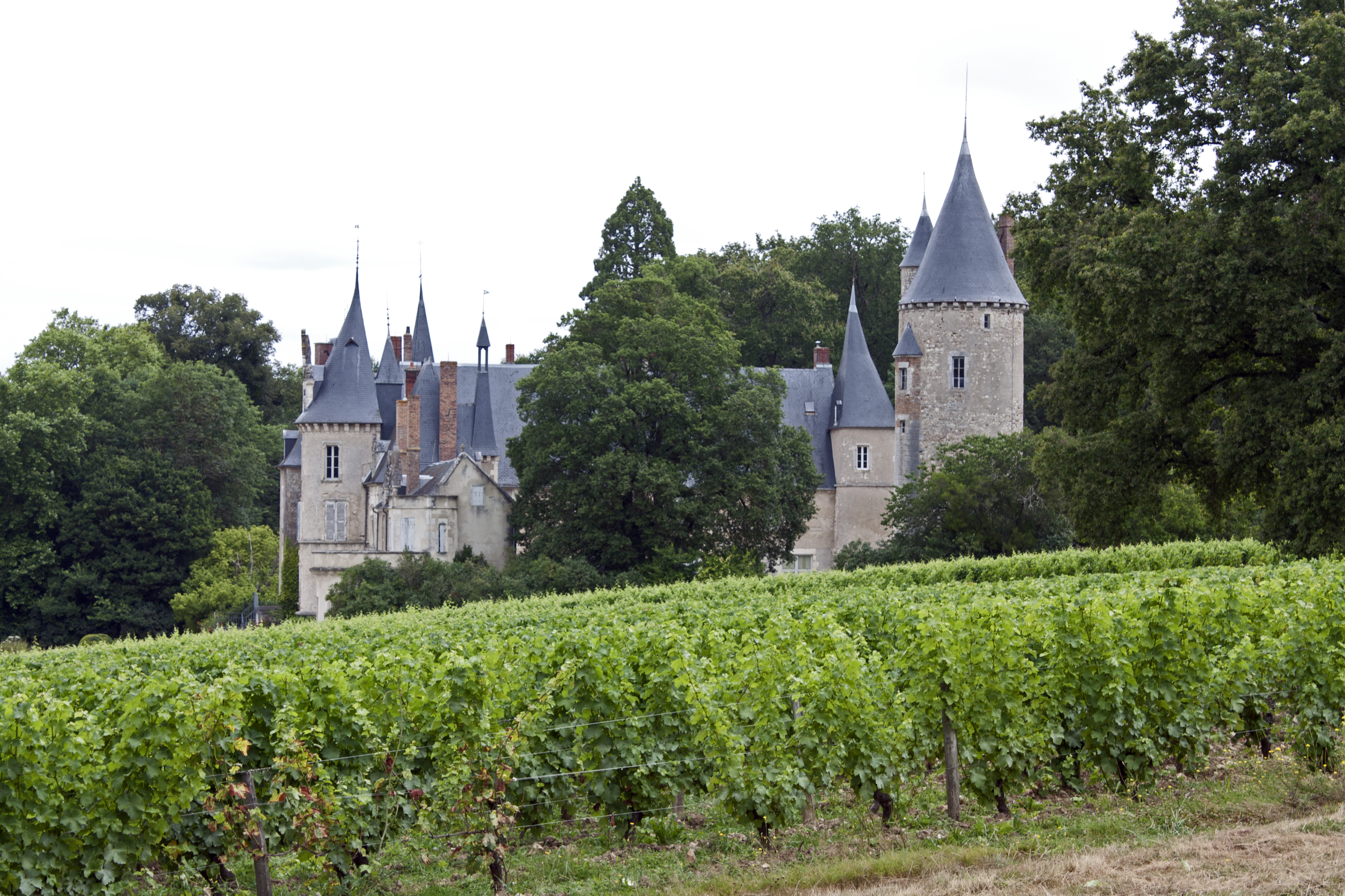 Castle of Tracy